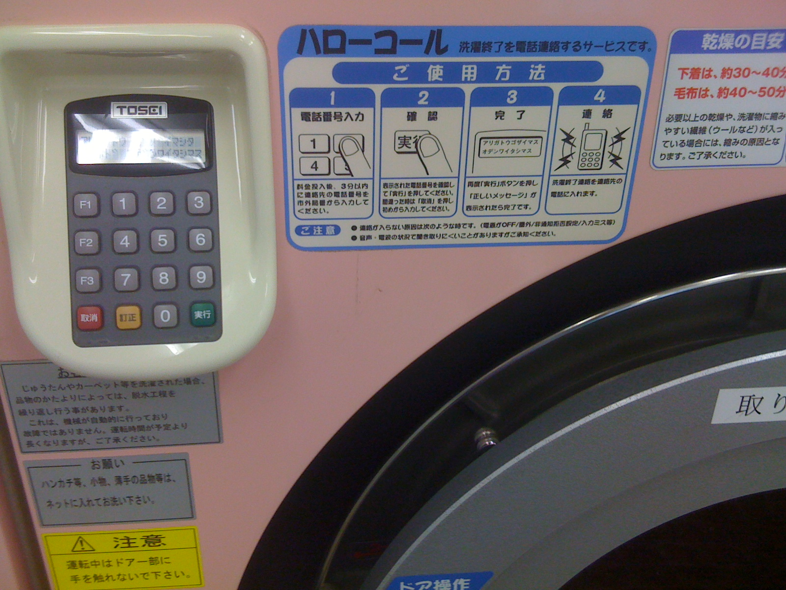 First time using a coin laundry in Japan. Calls you when the wash and dry (all in the same machine) is done. Cool.